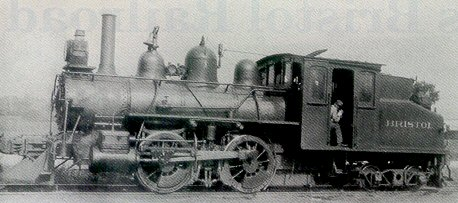 Bristol Railroad's No. 1, an 0-4-4T saddle tanker.